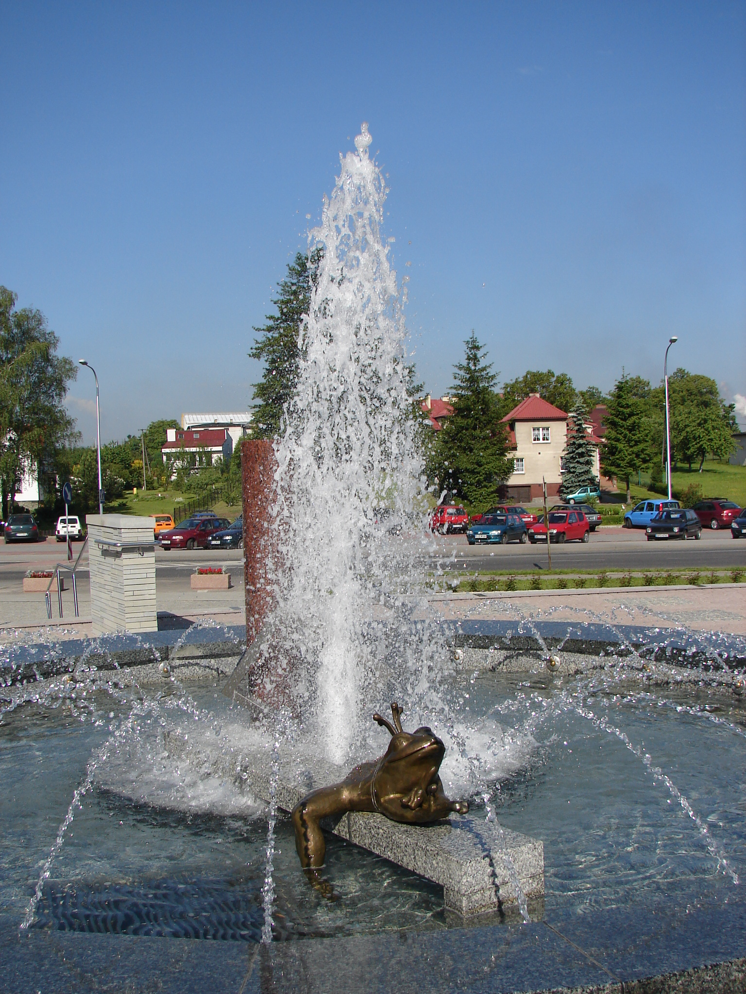 fontain